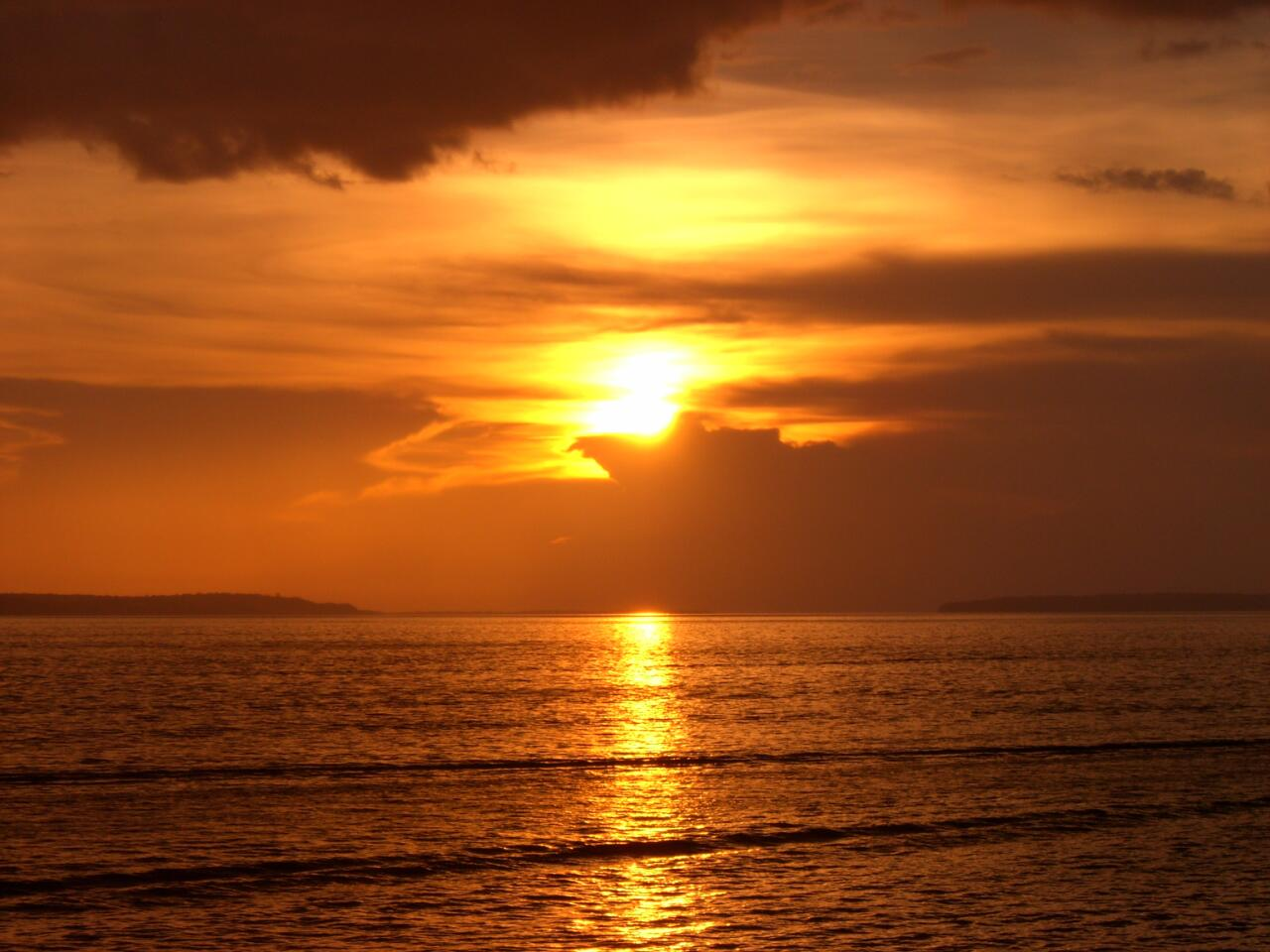 Sunset on the Negro River, Manaus, Amazonas, Brazil.